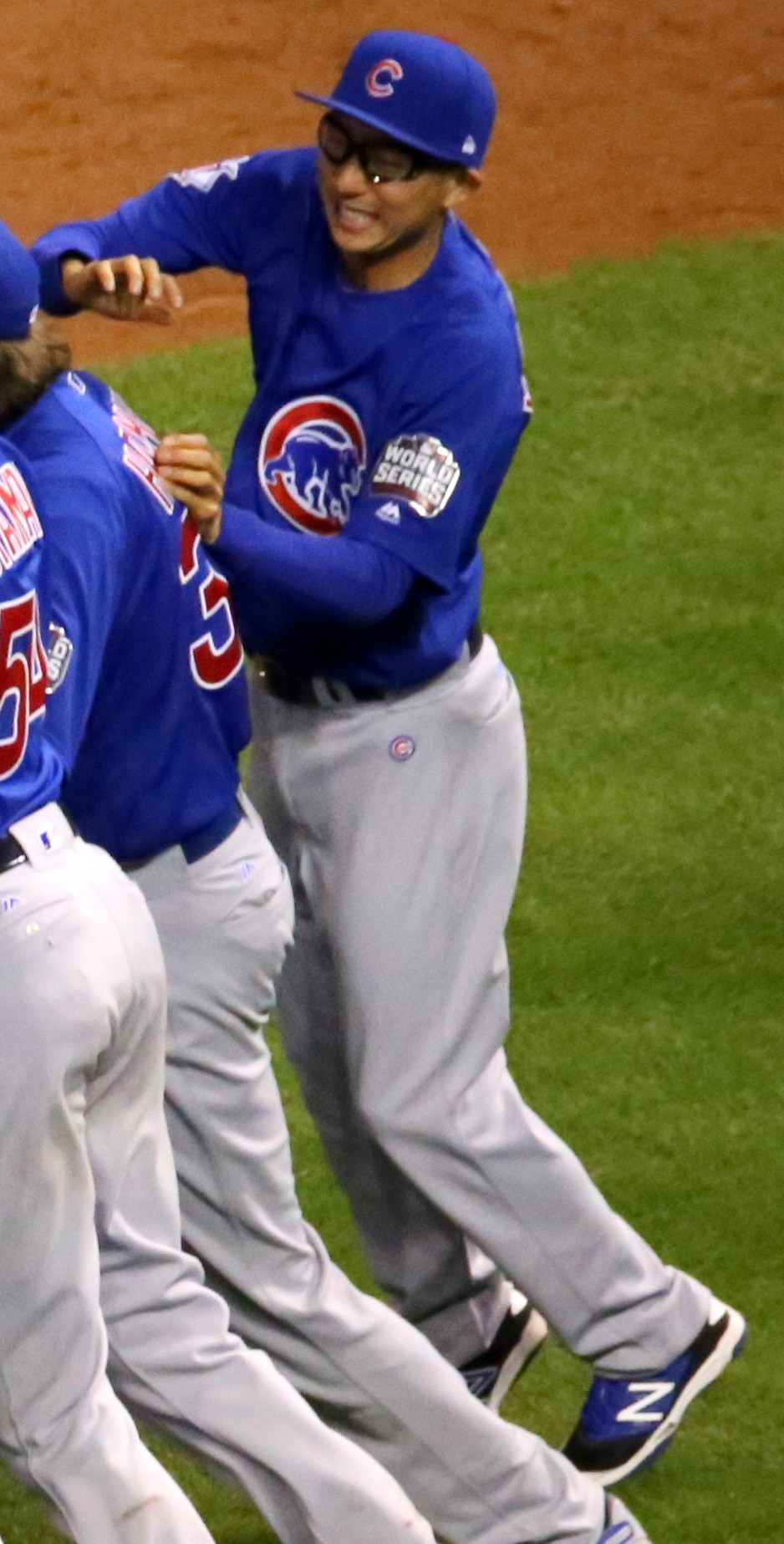 Kawasaki Cubs World Series Championship